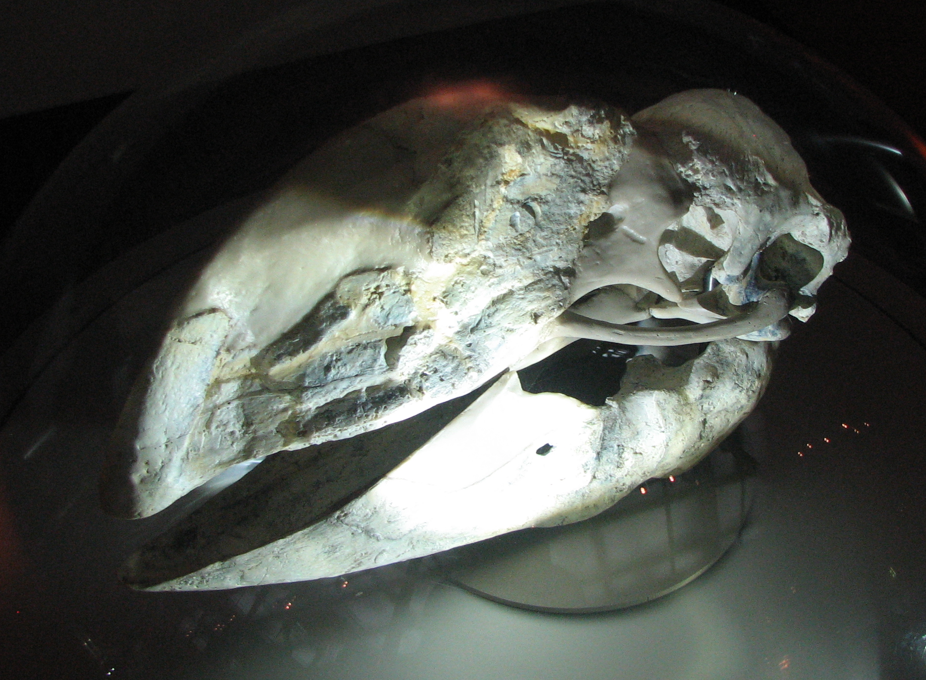 An extinct species in Australia